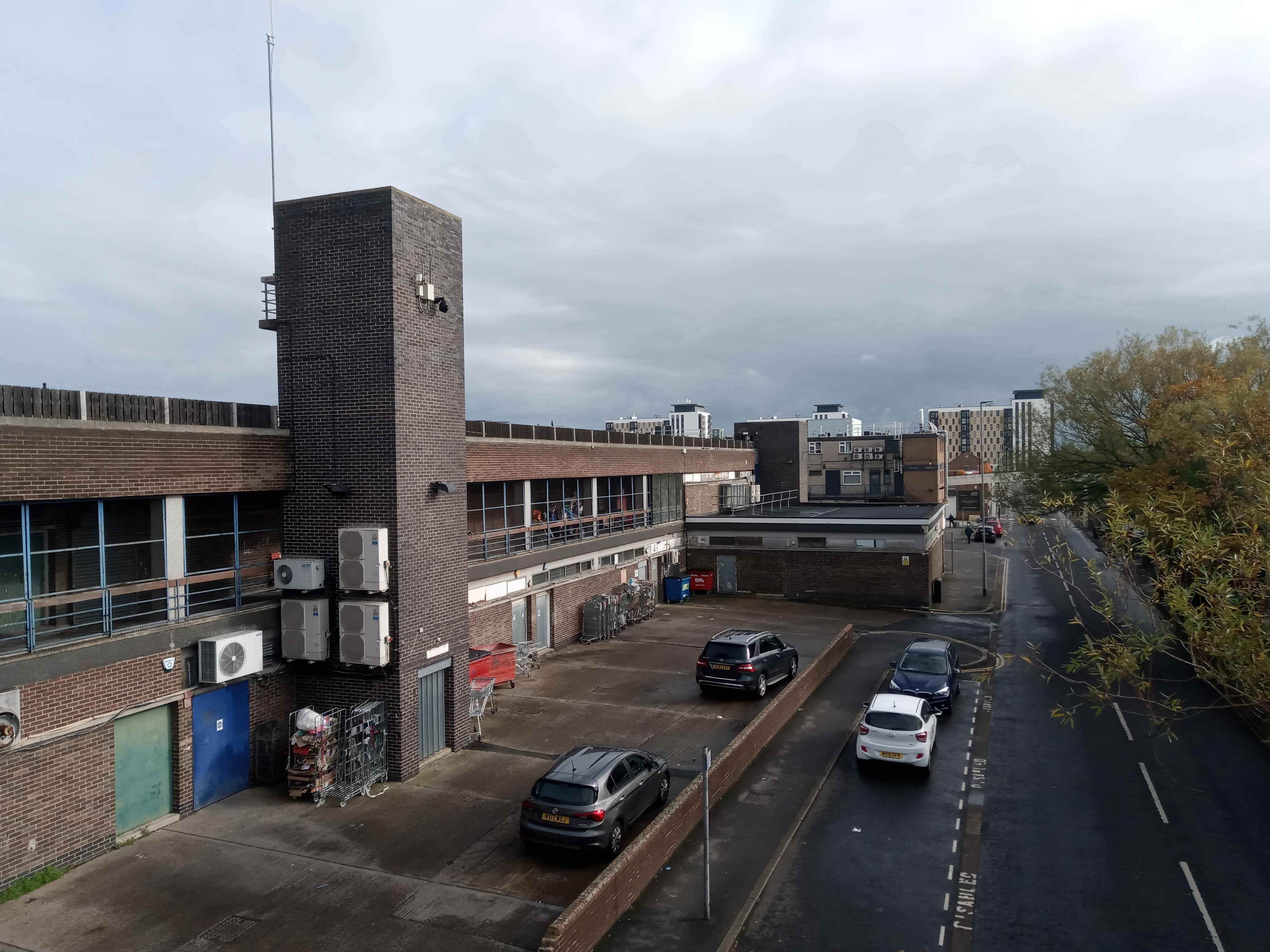 Billingham